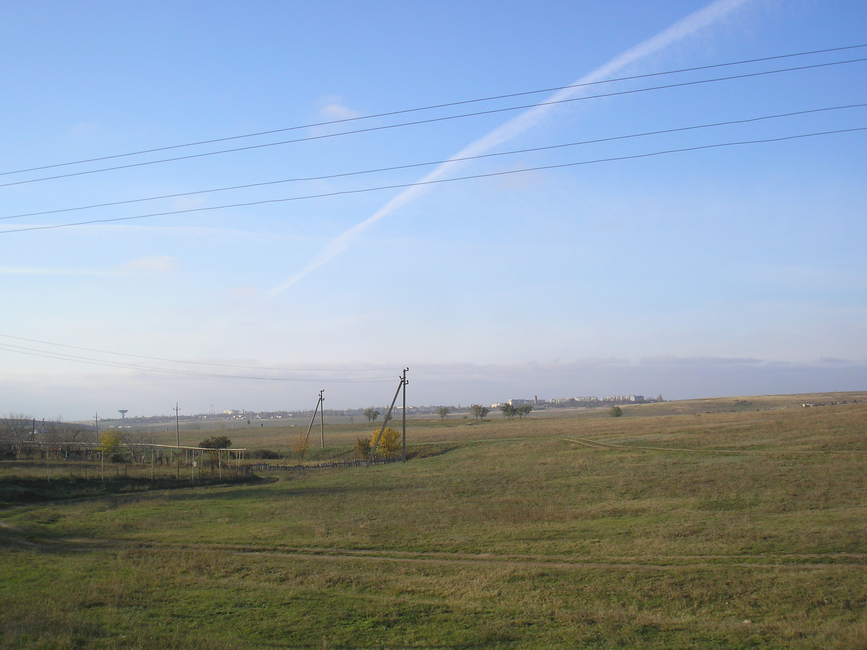 Settlement Shkolnoe, Simferopol district, Crimea